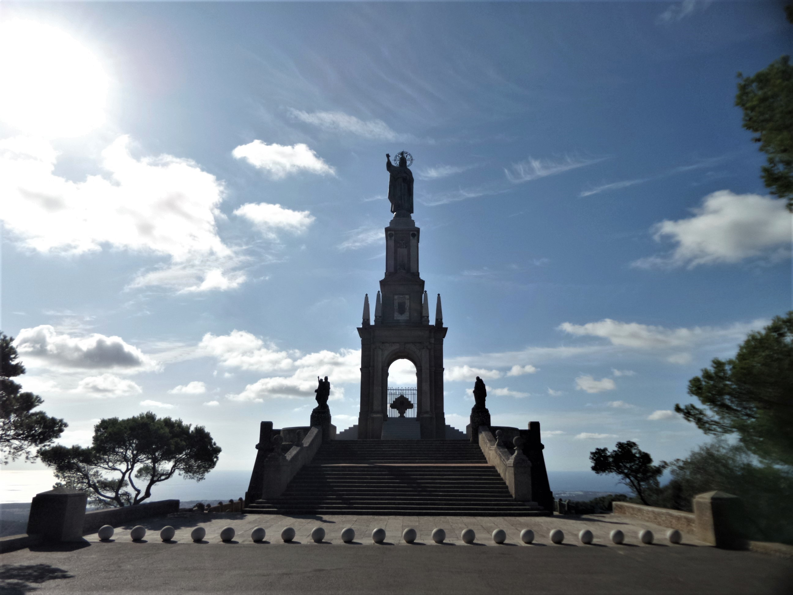 Cristo Rei Monument at Puig de Sant Salvador